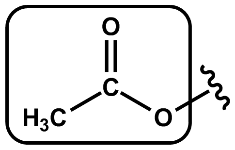 Acetate moiety